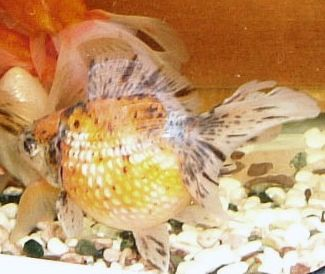 chinshurin(goldfish)